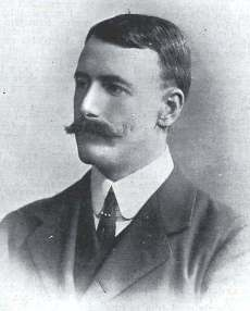 Bob Lambert, Irish badminton player